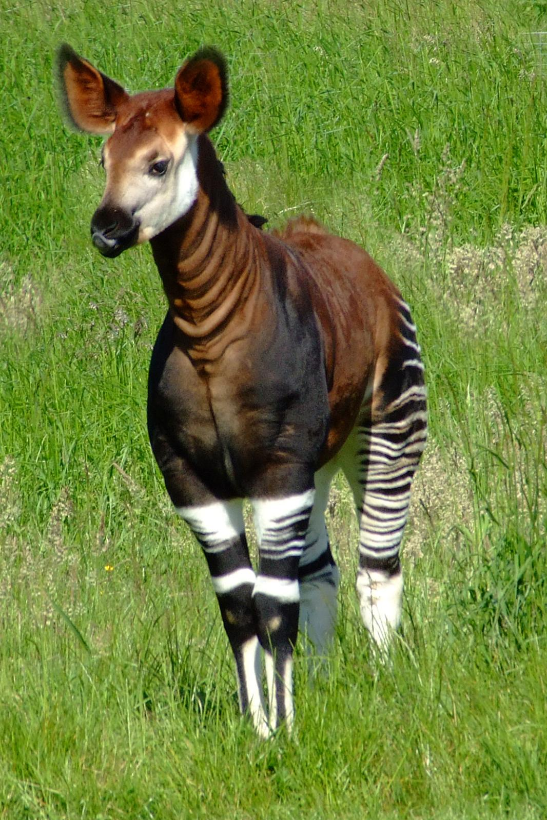 An okapi at Marwell Wildlife, Hampshire, England.